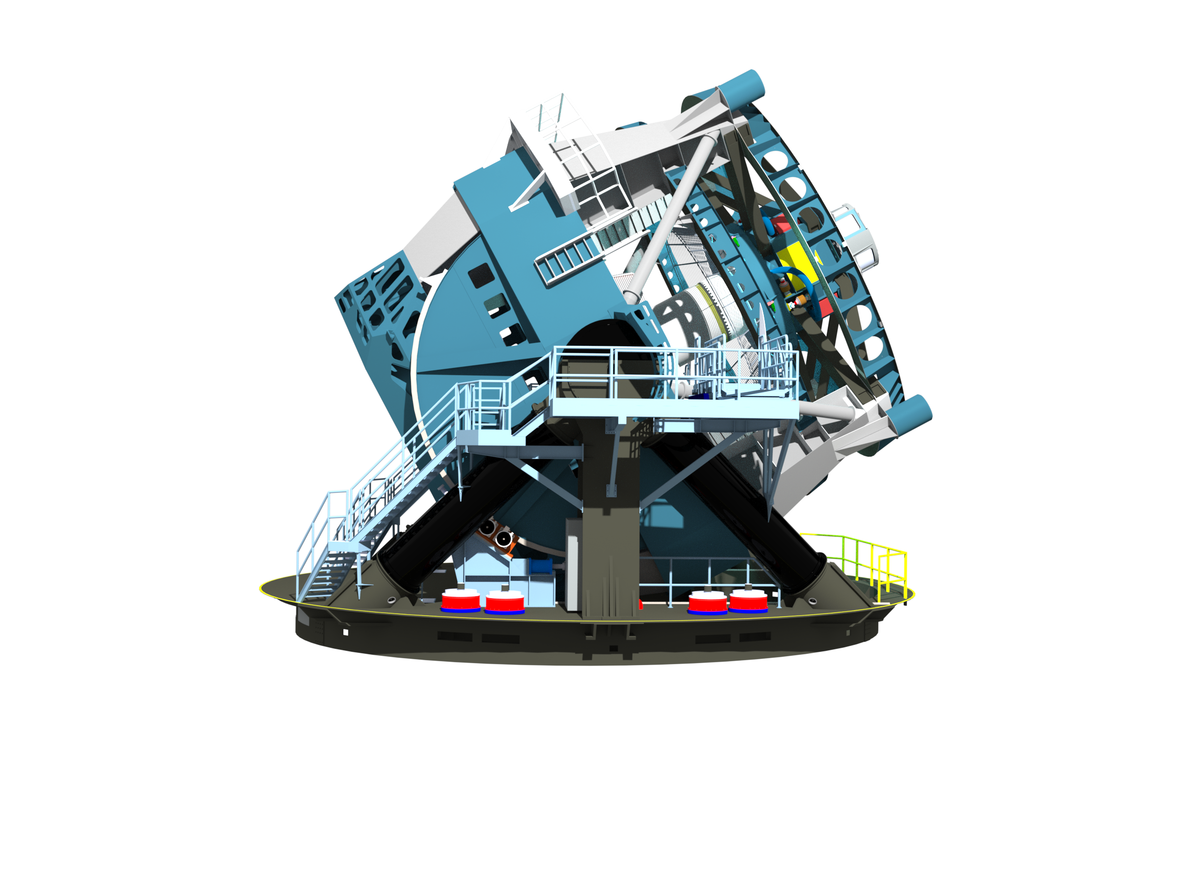 Profile view rendering of Large Synoptic Survey Telescope